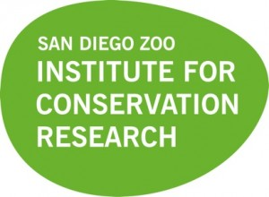 Logo of San Diego Zoo Institute for Conservation Research, formerly the Center for Reprodution of Endangered Species (CRES). The new name and logo were adopted in 2009 as part of a rebranding of the organization. The San Diego Zoo Institute for Conservation Research is operated by San Diego Zoo Global, which also operates the San Diego Zoo, San Diego Zoo Safari Park, and San Diego Zoo Wildlife Conservancy.